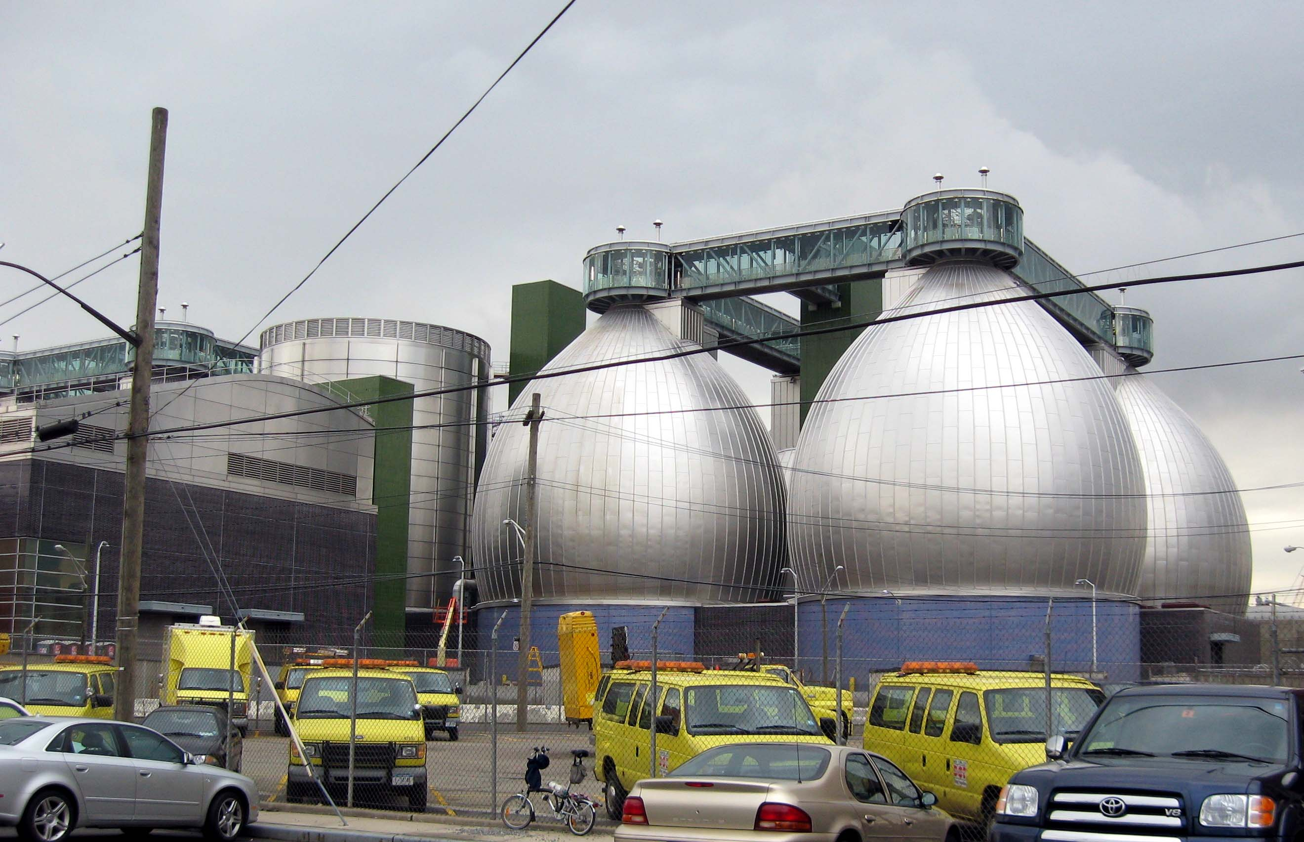 Newtown Creek Wastewater Treatment Plant. Looking west across Kingsland Avenue at three of the eight large sewage digester tanks built at the turn of the century, north of Greenpoint Avenue in Greenpoint, Brooklyn.